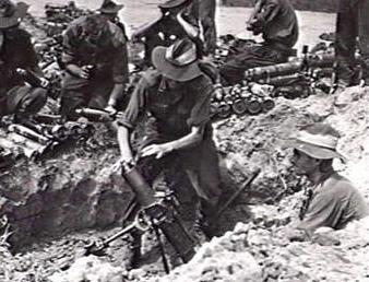 2/14th Battalion soldiers firing a 3-inch mortar near Manggar airstrip, 5 July 1945